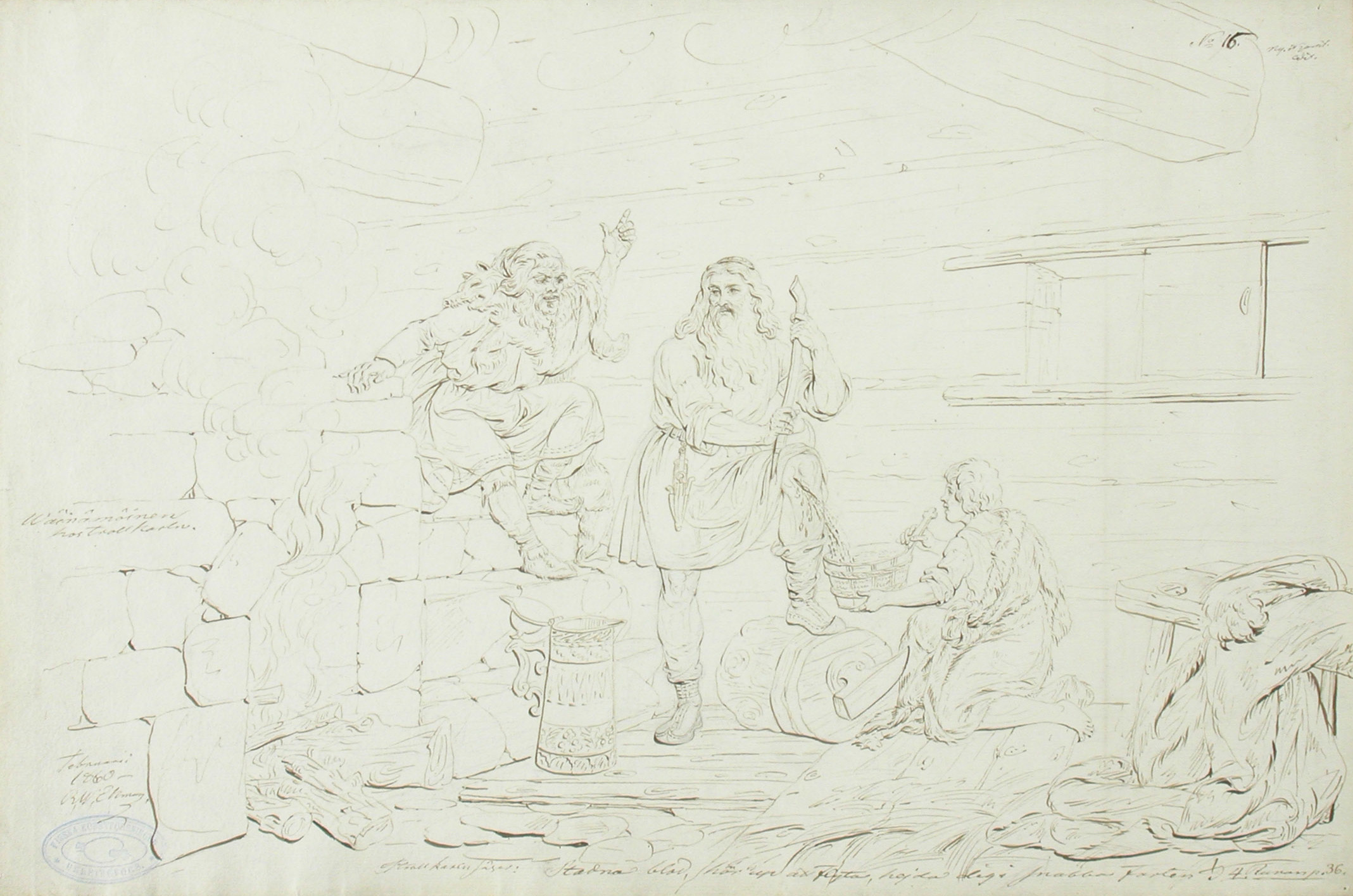 From the 9th song of Kalevala where an old man heals Väinämöinen’s knee wound.